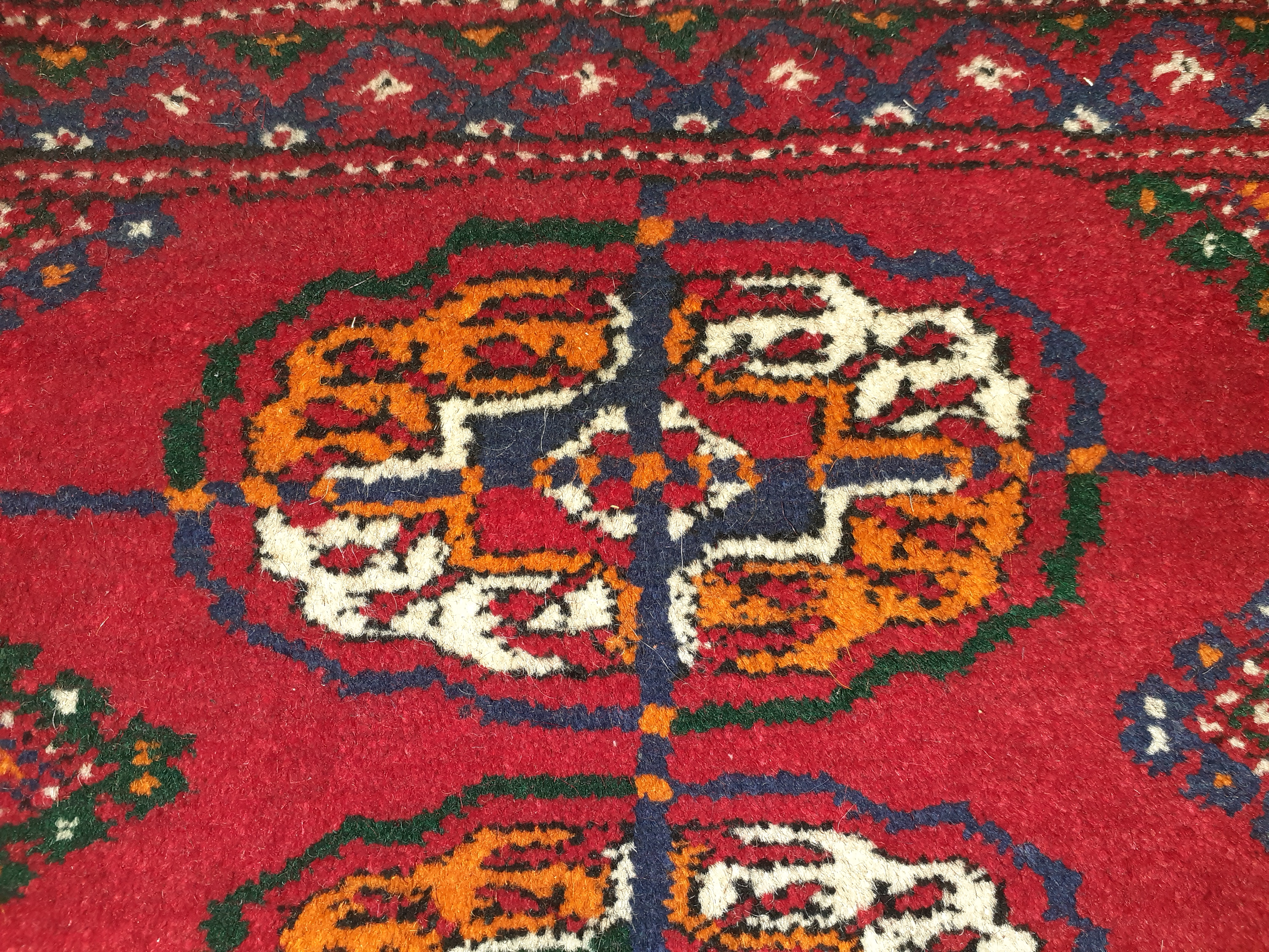 Teke Turkmen tribal design, called a göl (rosette), that identifies a carpet as having been woven by a member of the Teke tribe.